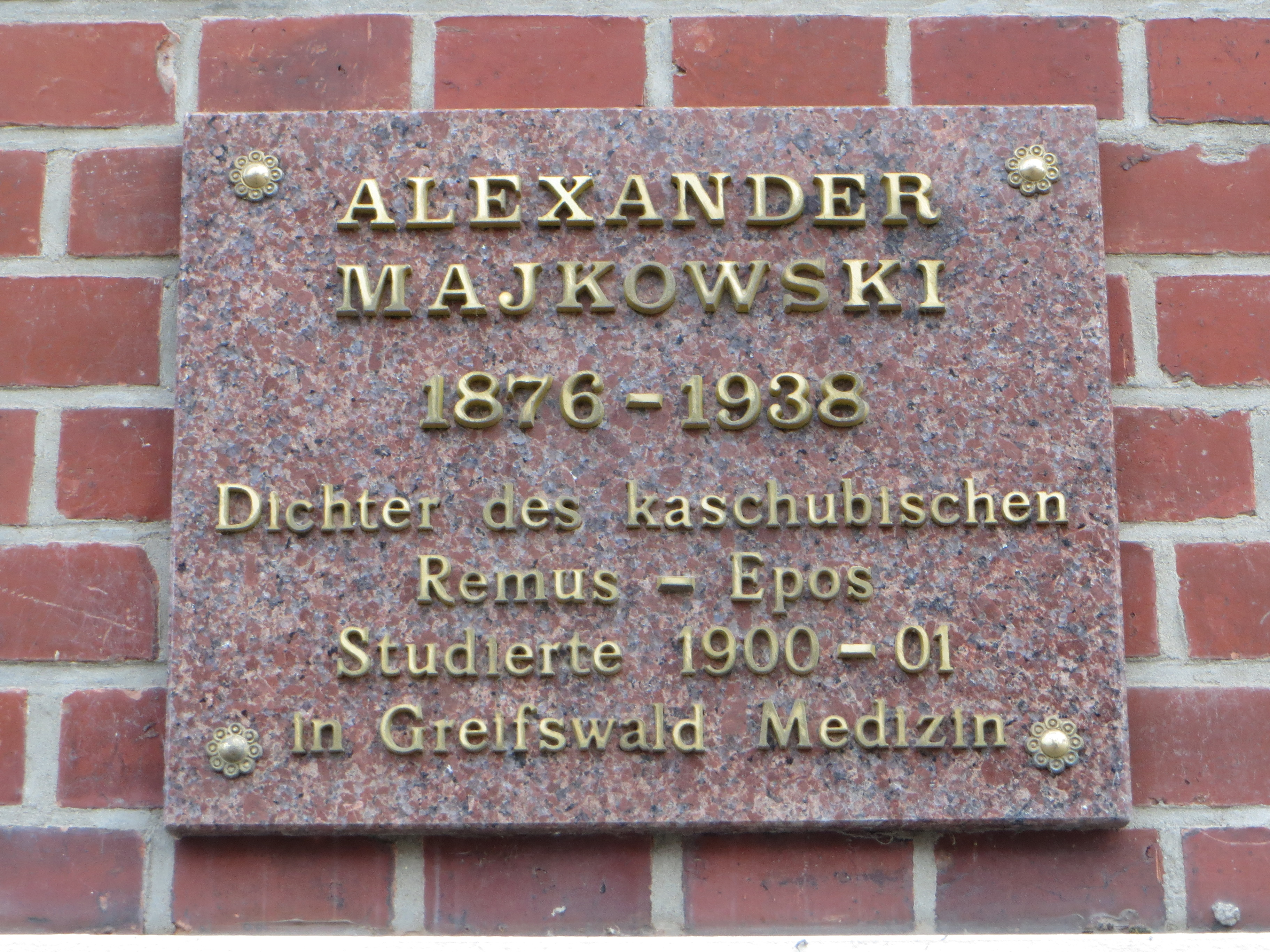 Plaque at Bahnhofstrasse 57 in Greifswald commemorating enAleksander Majkowski